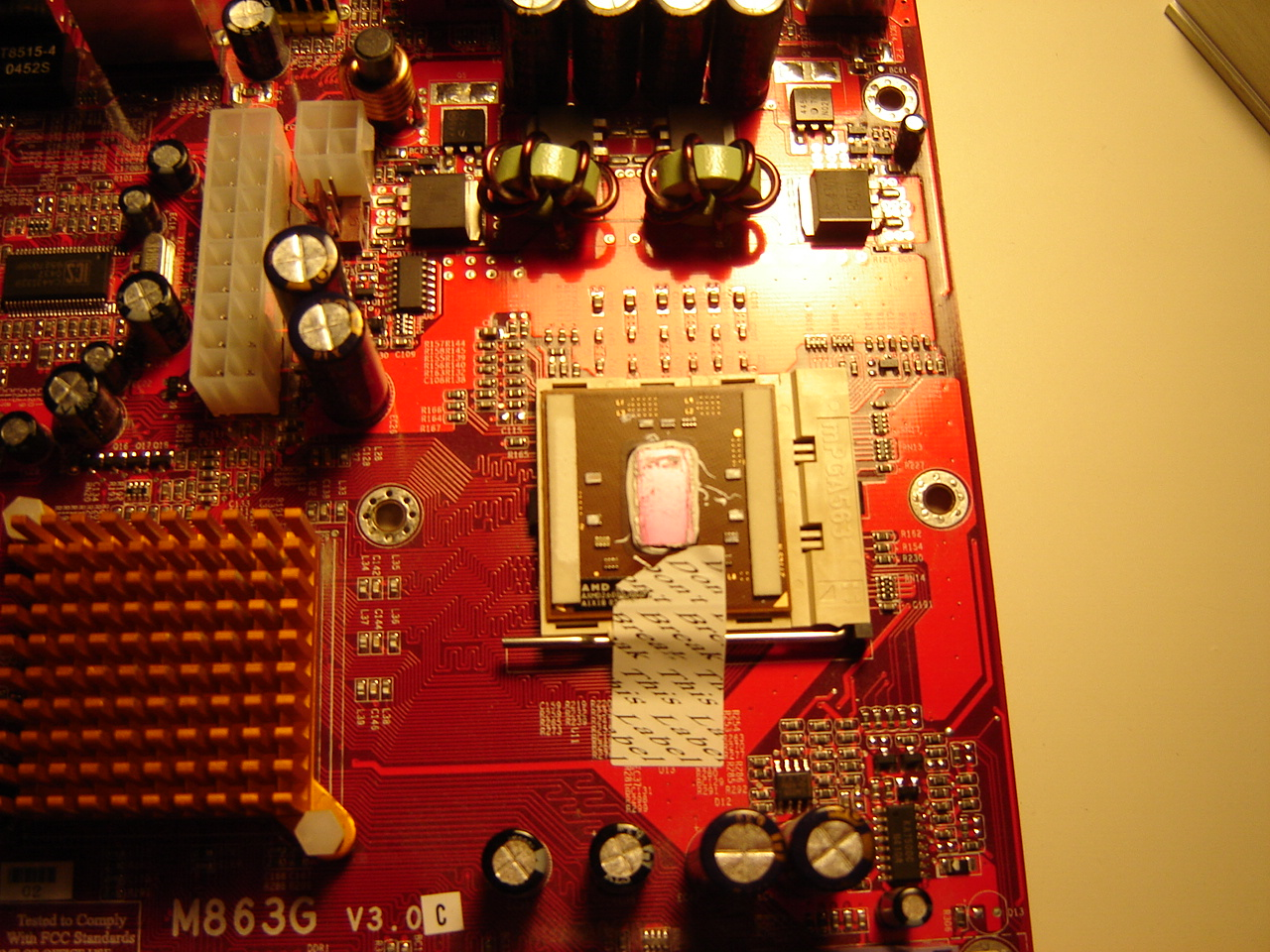 My Socket 563 desktop motherboard. Uploading a sample as apparently it's quite rare.